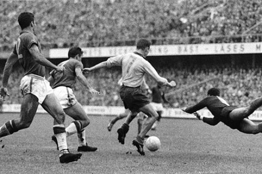 Brazilian goalkeeper Gilmar faces the Swedish forward Hamrin during the 1958 World Cup final.